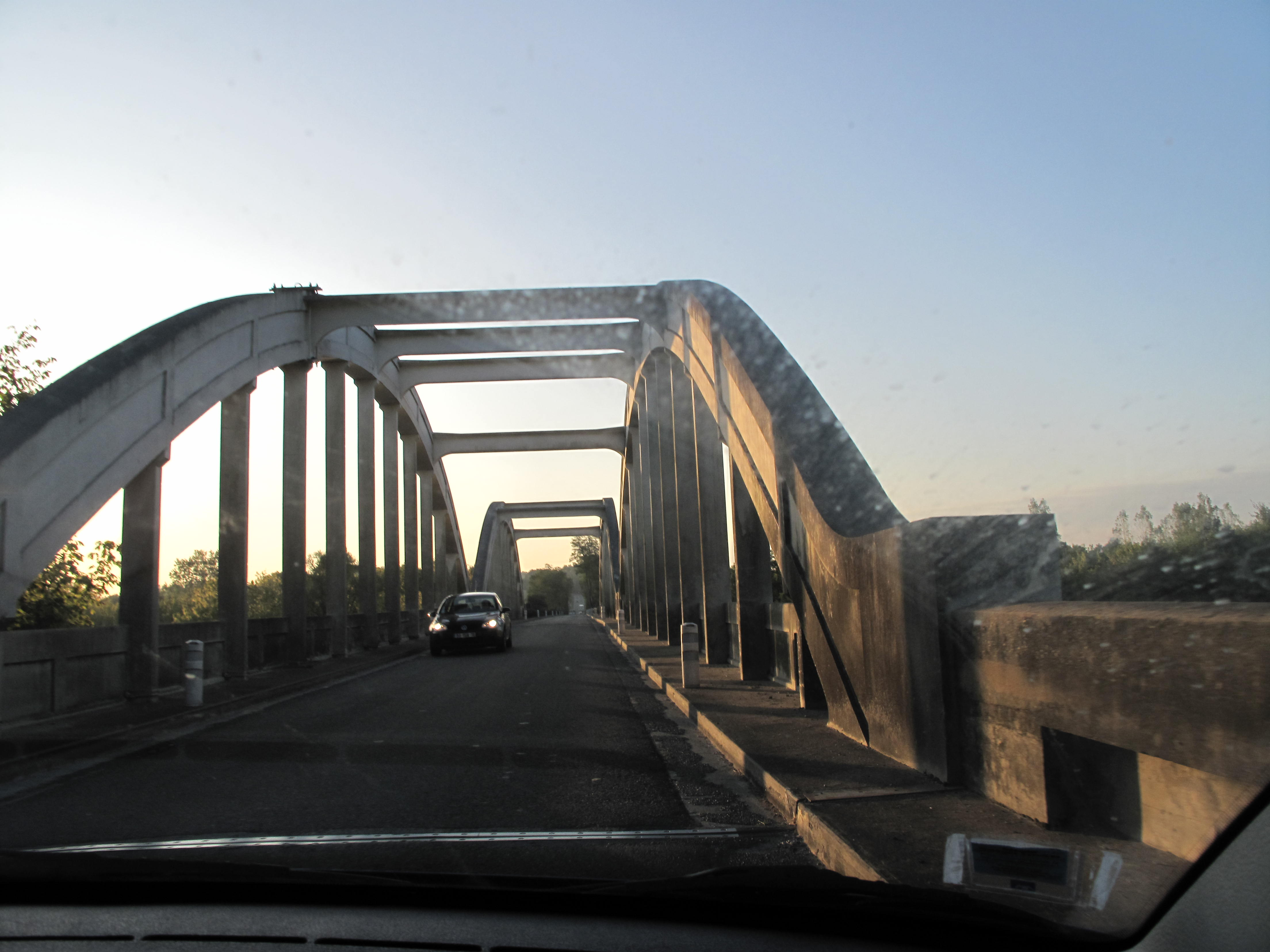 The bridge of la Marqueze on the river adour, near the village of Josse (Landes, France). Photo taken looking to east